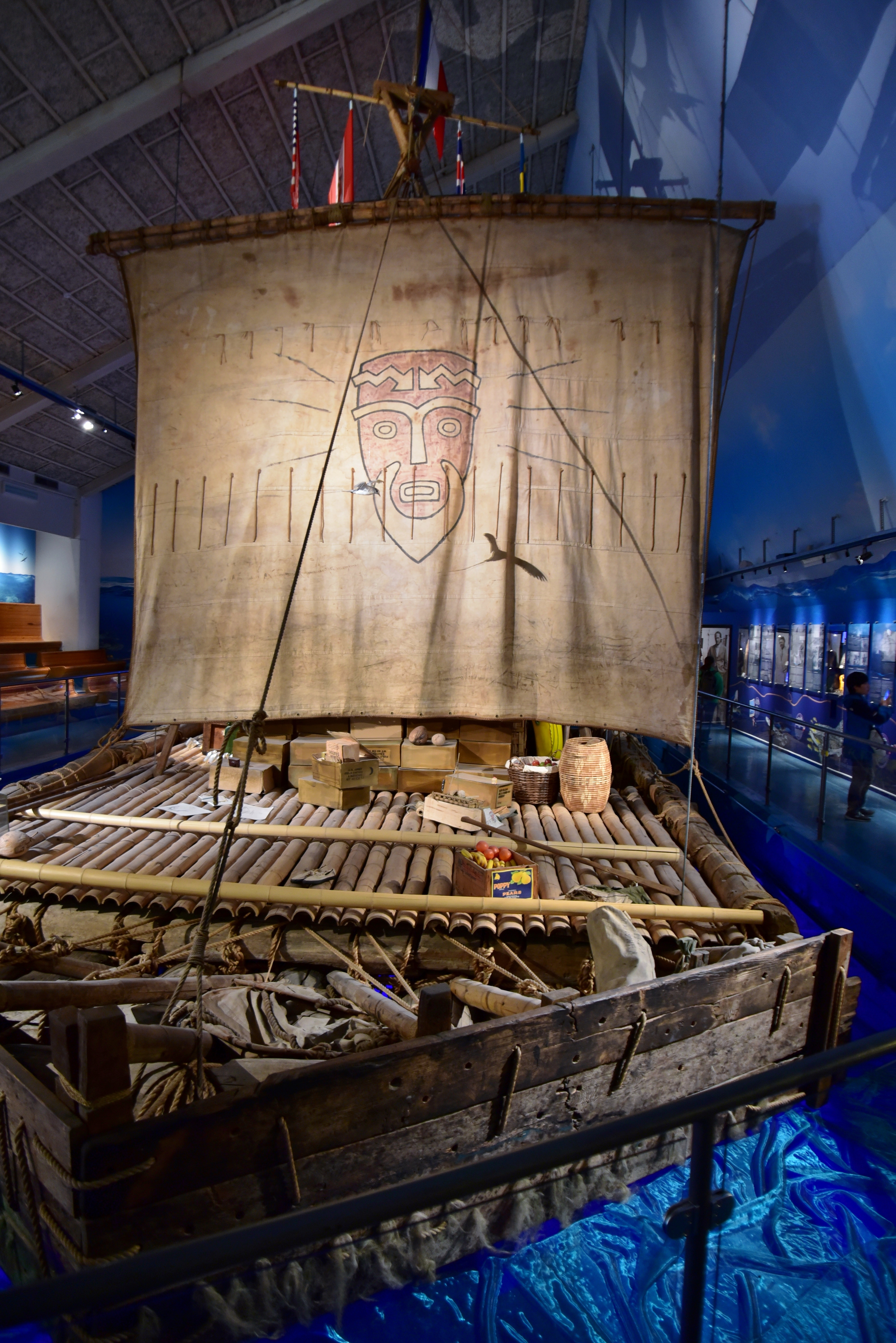 Kon-Tiki, on display inside the Kon-Tiki Museum, Oslo